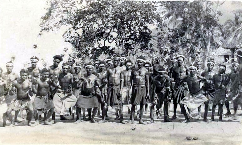 Dancers of the Tolai people, Nodup near the town of Rabaul, Gazelle Peninsula of New Britain, Papua New Guinea. c 1918. Private photograph printed on Kodak Austral stock.